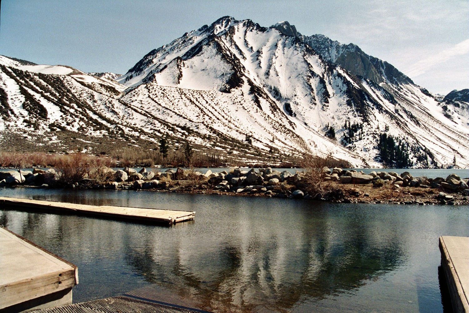 Photographed and uploaded by user:Geographer. Convict Lake and Mount Morrison in late spring,on March 27, 2003. Category:Lakes of California